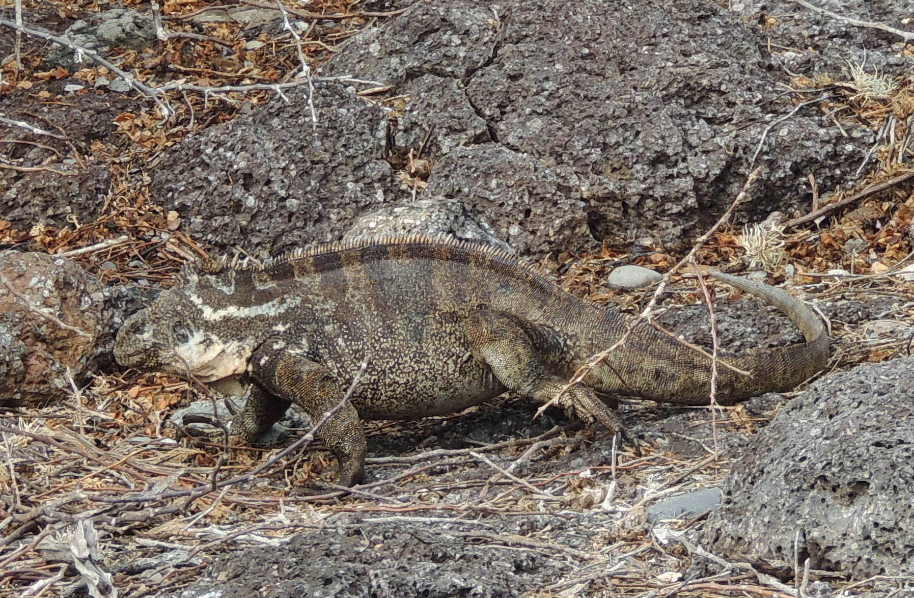 Intergeneric hybrid land iguana × marine iguana (Amblyrhynchus cristatus × Conolophus subcristatus), near the boat landing on South Plaza Island, the Galapagos, October 2018